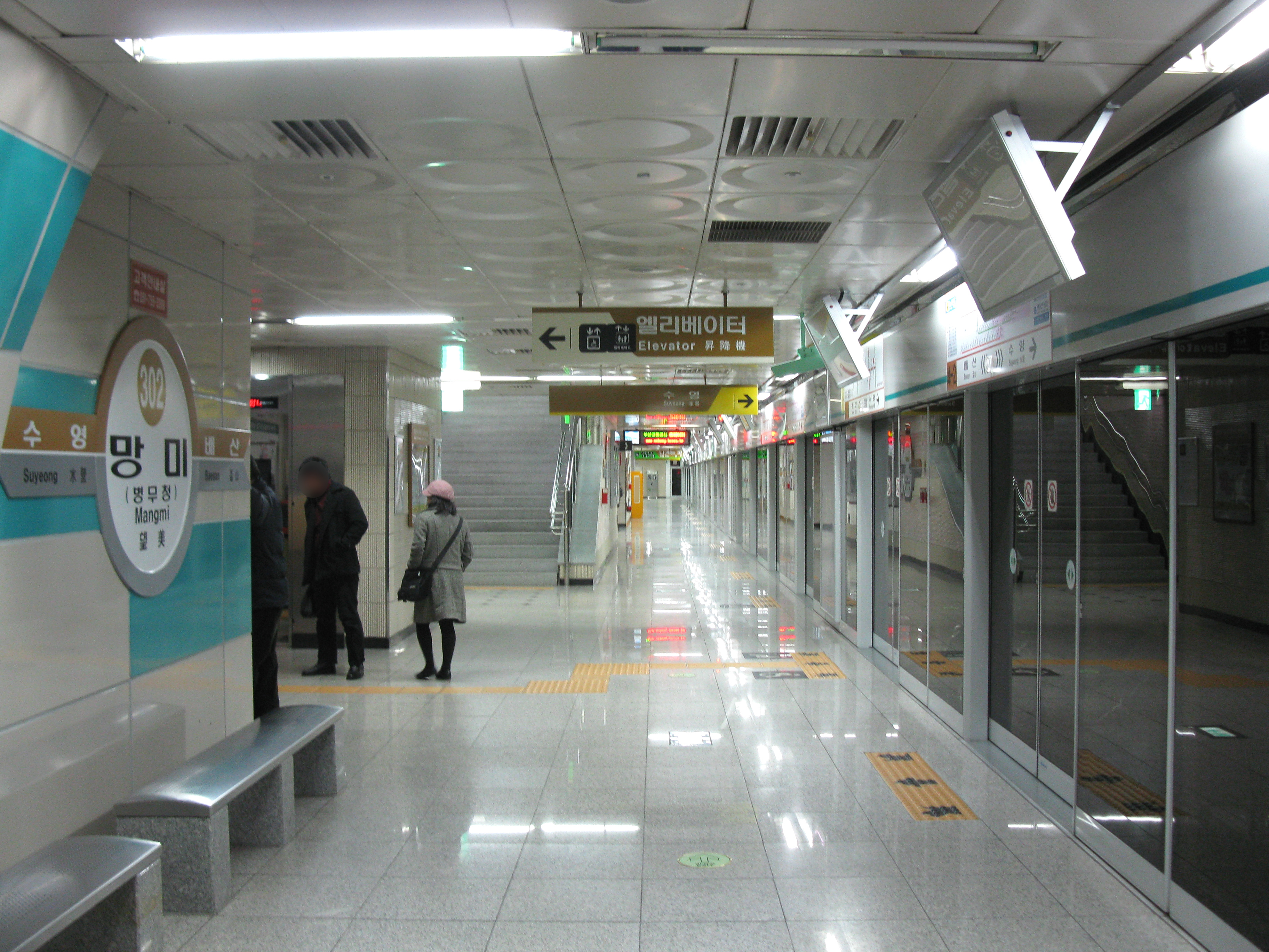 A platform of Mangmi Station, Busan Subway Line 3